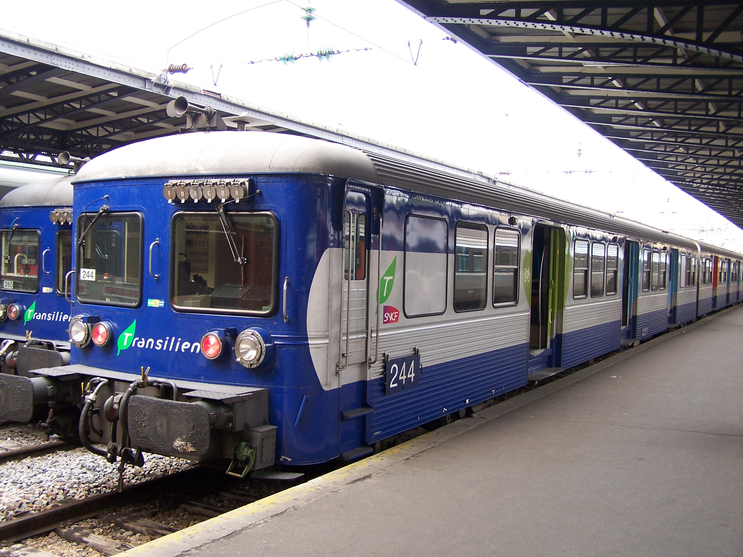 French interurban train in Gare de l'Est, Paris.